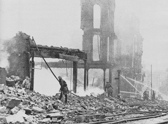 Destruction in the Bull Ring, Birmingham, following Luftwaffe air raid. Firemen damp down the remaining fire.